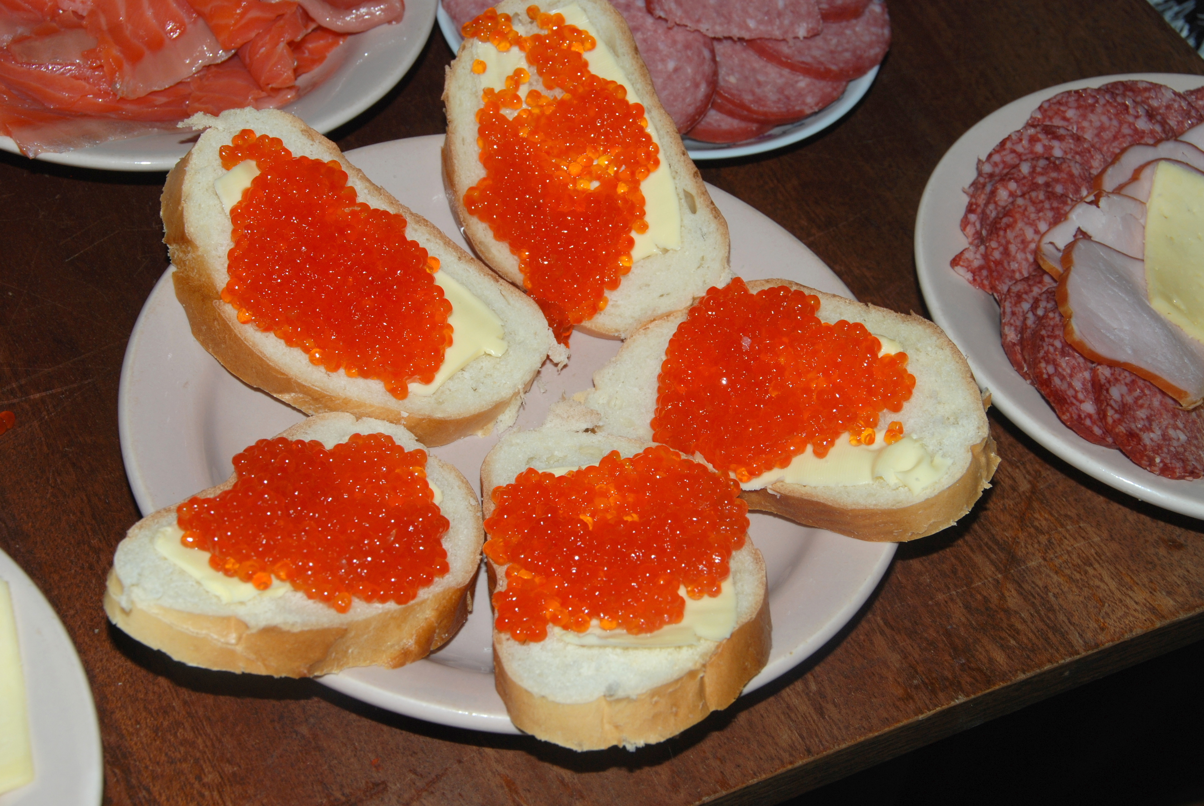 Butterbrotes with caviar of trout